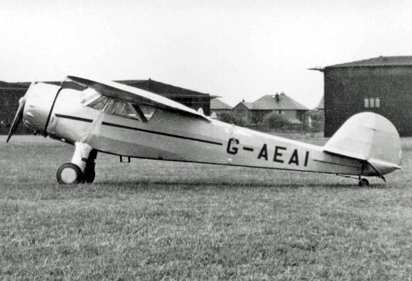 Cessna C.34 Skymaster G-AEAI at Blackpool (Squires Gate) Airport